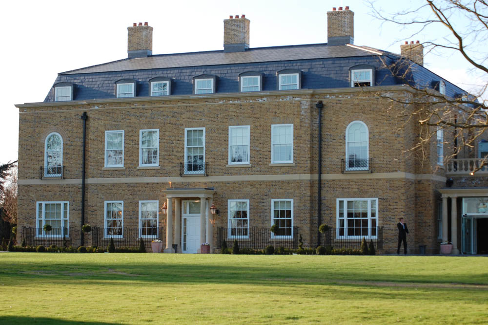 The newly rebuilt Orsett Hall